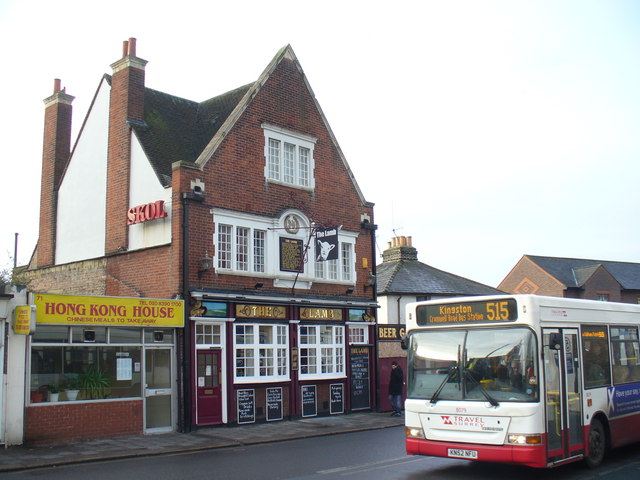 The Lamb Historic pub on Brighton Road, Surbiton which has gained an exotic neighbour in the form of Hong Kong House. The bus is on a long distance route (service 515) from Guildford to Kingston, a distance of nearly 20 miles. It is Travel Surrey 8079 (KN52 NFU), a Mini Pointer Dart.